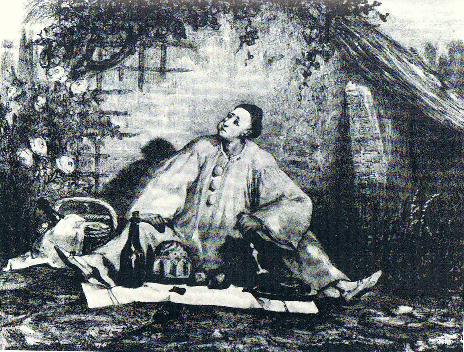 Photo of lithograph by Auguste Bouquet of J.-G. Deburau as Pierrot Gourmand